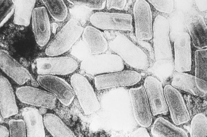 ID#: 5611 Description: This electron micrograph depicts the vesiculovirus responsible for vesicular stomatitis (VS) in horses, cattle and pigs. As a member of the Rhabdoviridae family of viruses, you’ll note the morphologic similarity, i.e., bullet-shaped virion, between this vesicular stomatitis virus (VSV), and the rabies virus. Content Providers(s): CDC Creation Date: 1981 Copyright Restrictions: None - This image is in the public domain and thus free of any copyright restrictions. As a matter of courtesy we request that the content provider be credited and notified in any public or private usage of this image.